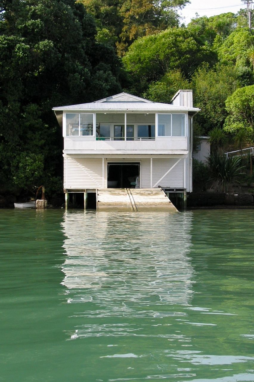 Hawke Sea Scout Hall, known as "the Ship". Coxs Bay, Auckland, New Zealand. Two level boatshed & hall.